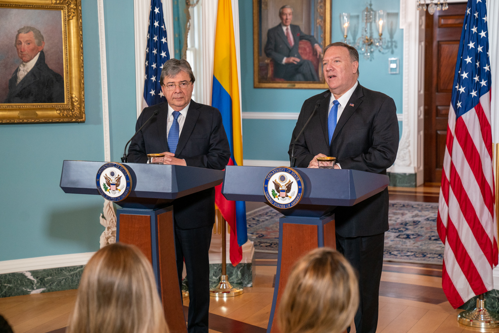 Secretary of State Michael R. Pompeo participates in a press availbilty with Colombian Foreign Minister Carlos Holmes Trujillo, at the Department of State, in Washington, DC on October 9, 2019. [State Department photo by Ron Przysucha/ Public Domain]